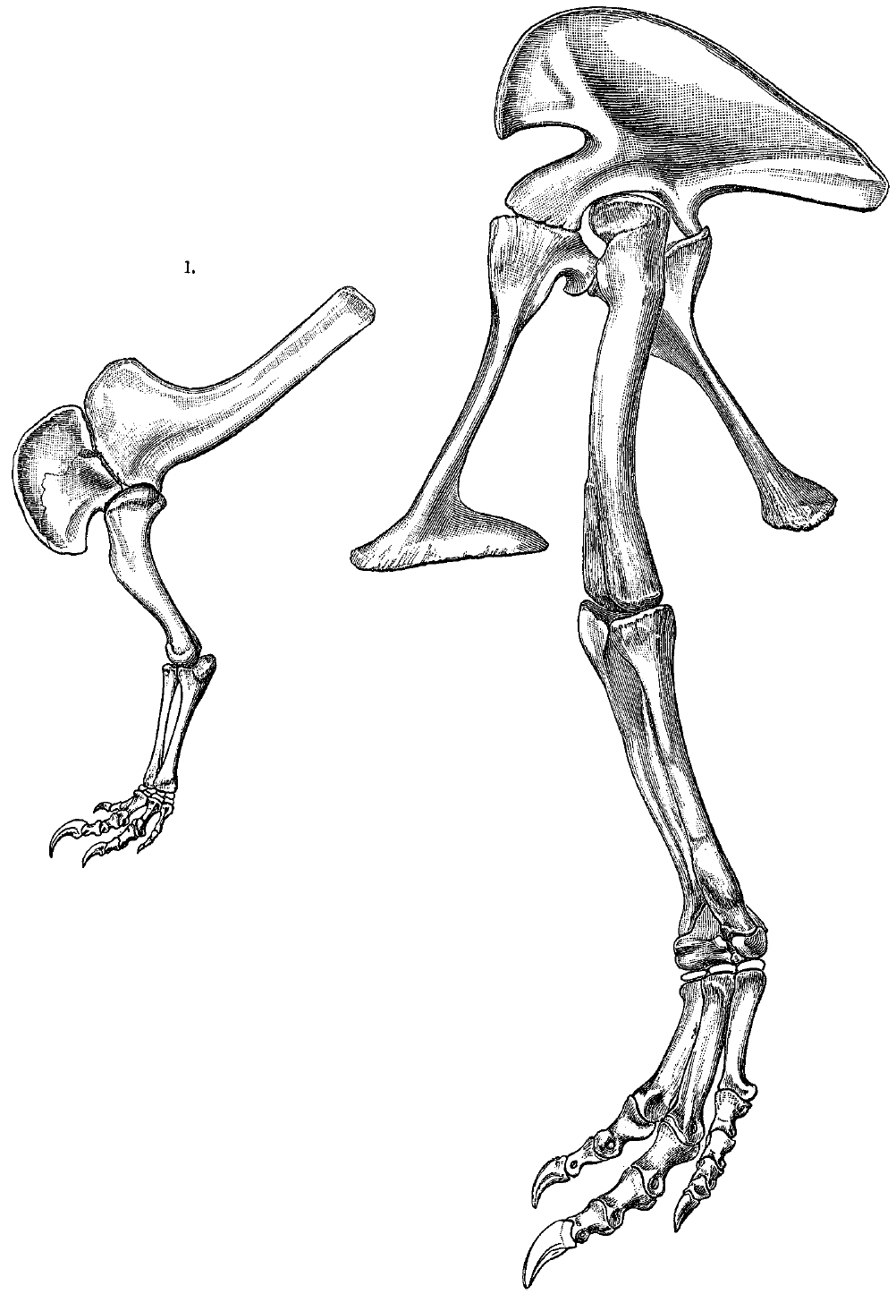 Restoration of the pelvis, fore and hindlimbs based on specimens O. C. Marsh had assigned to Allosaurus fragilis by 1884.